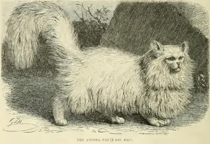 Persian/Angora from 1894. Caption says Angora, but text uses both terms interchangeably.